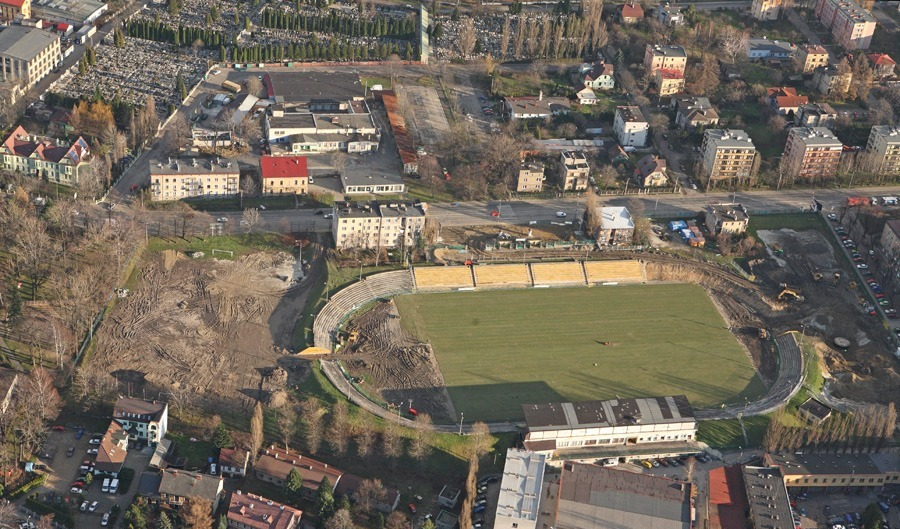 Stadion Miejski in Bielsko-Biała during repair in 2008.